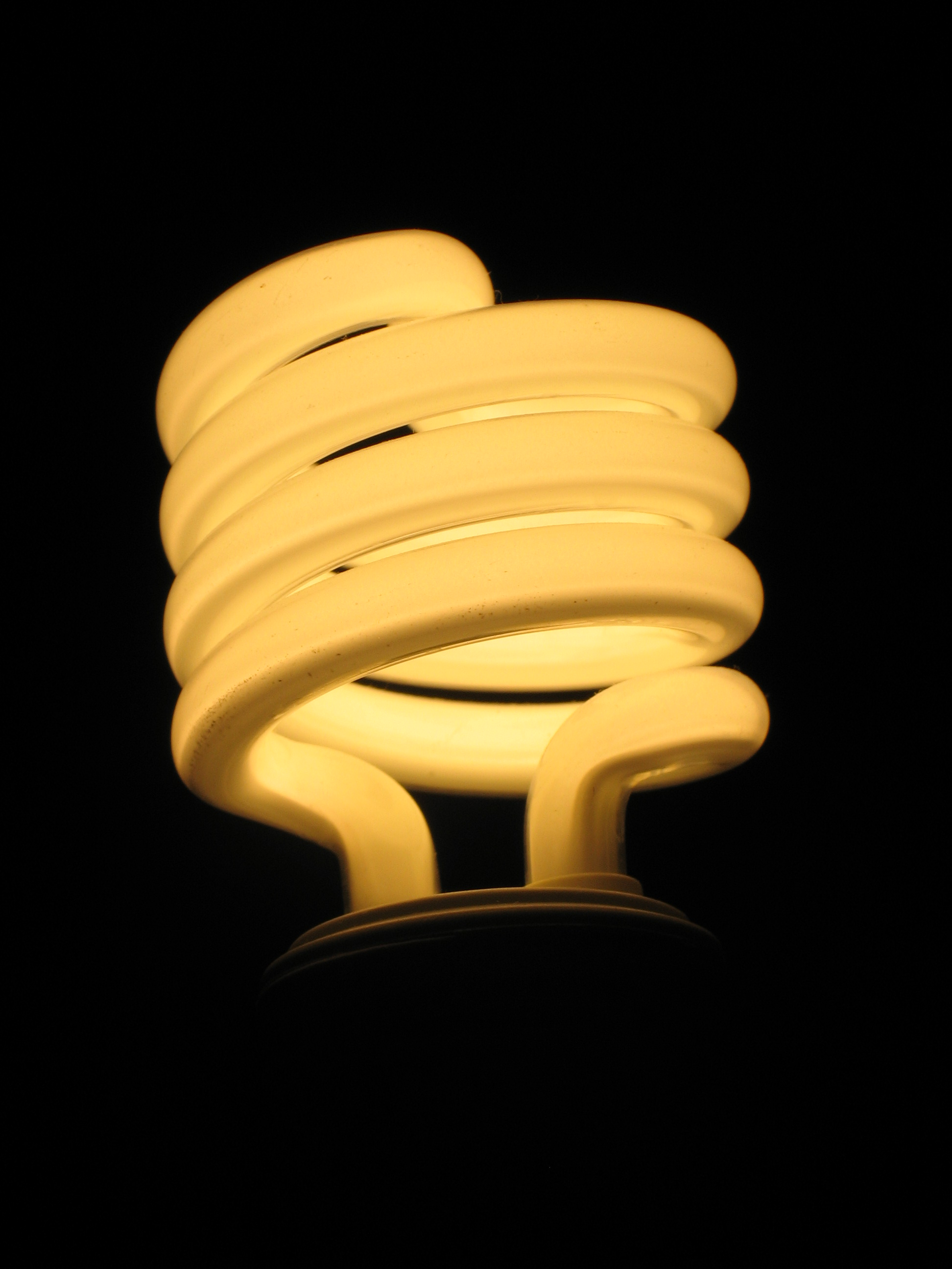 Photograph of illuminated incandescent-replacement fluorescent bulb.